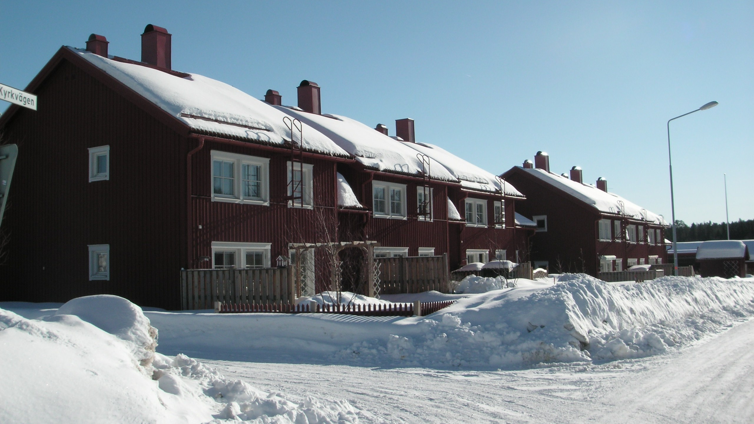 Housing on street "Kyrkvägen" in neighborhood "Backen" in western Umeå, Sweden.